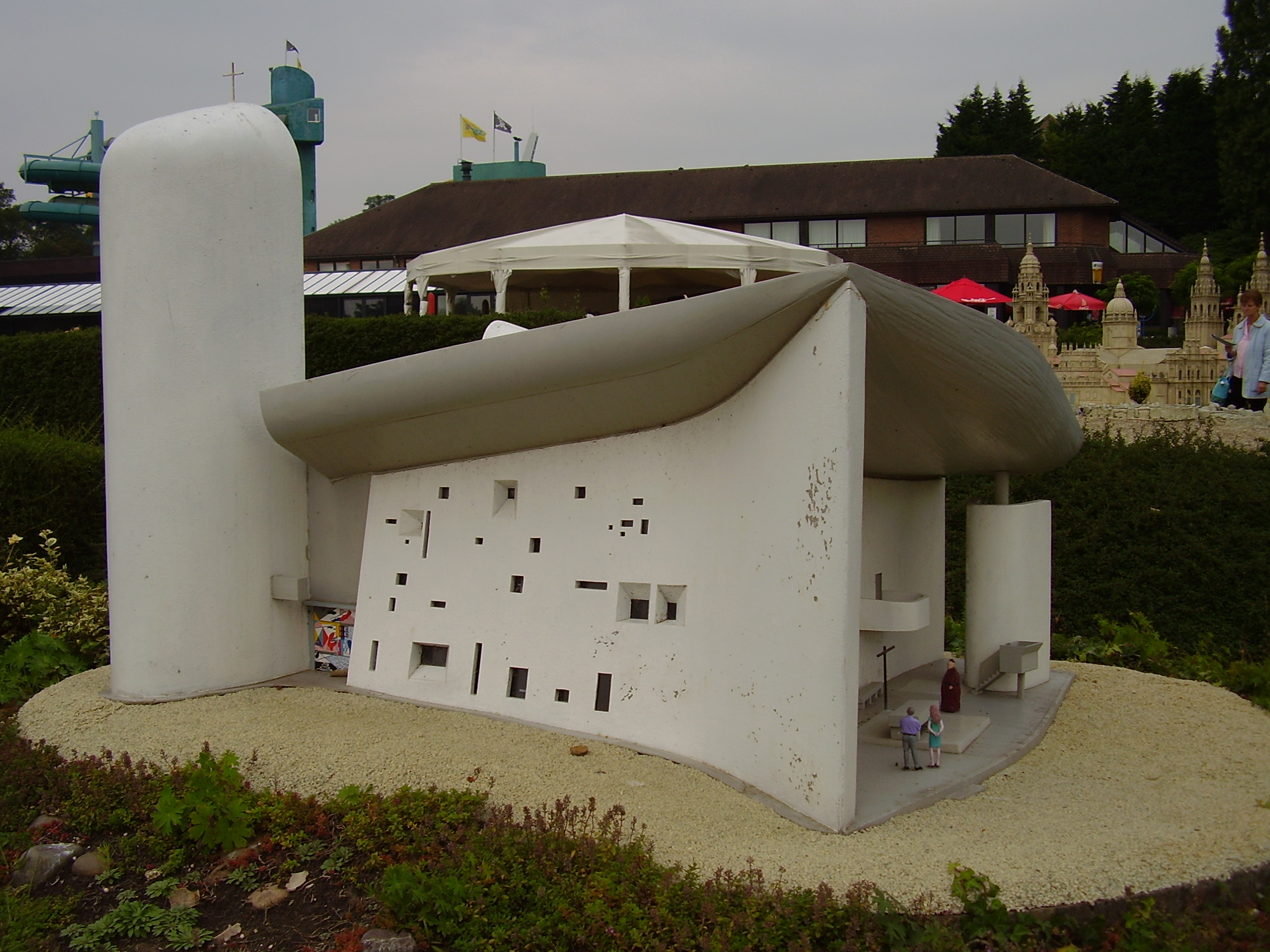 Model in Mini-Europe